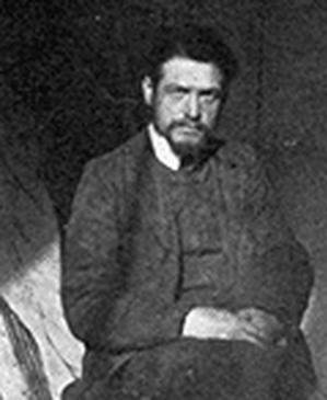 Auguste Herbin, photograph published in Gelett Burgess, The Wild Men of Paris, Architectural Record, May 1910